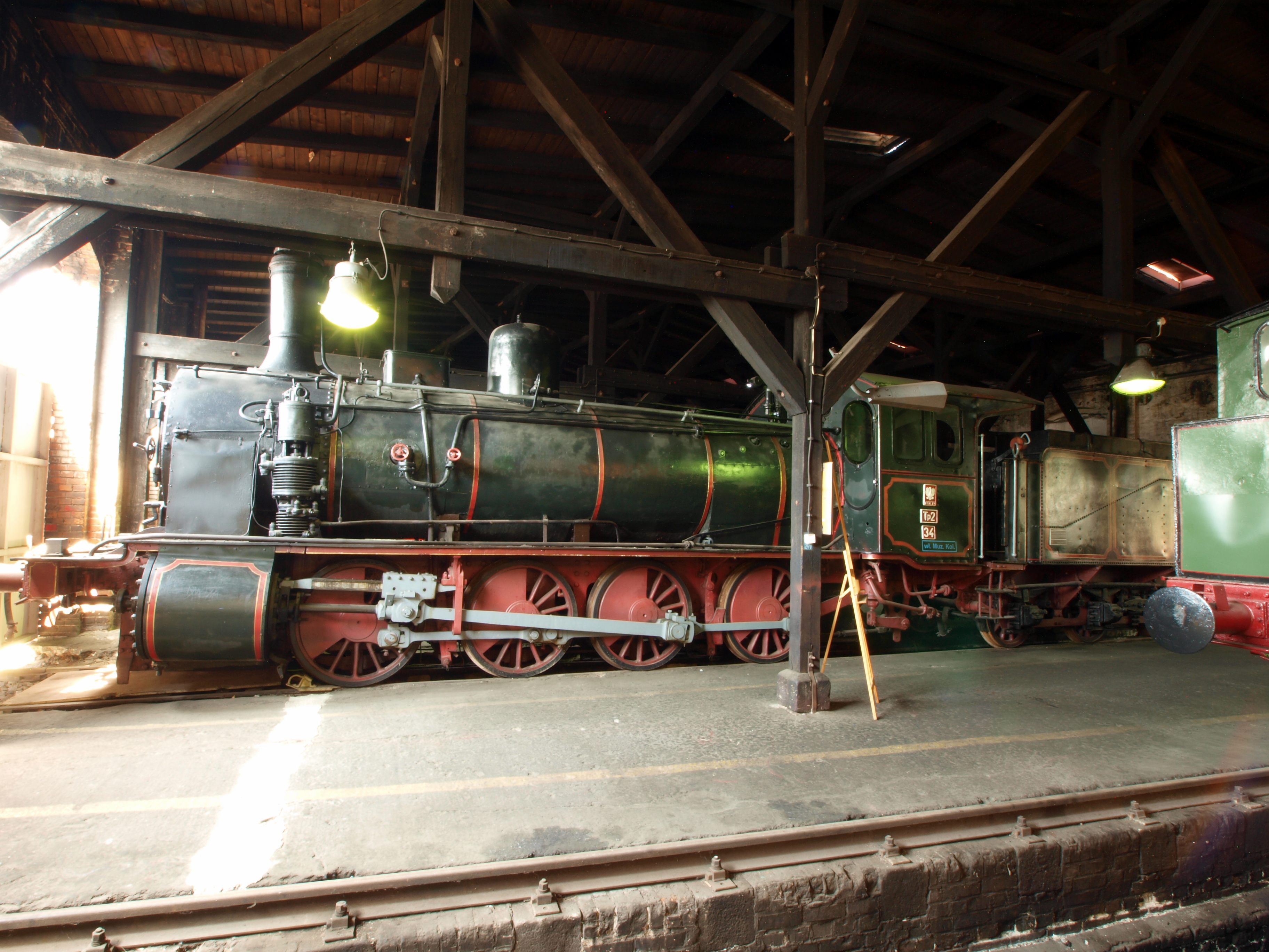 PKP class Tp2-34 at the Museum of Industry and Railway in Lower Silesia.